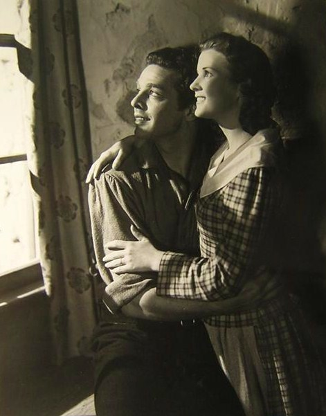 Robert Lowery & Dorris Bowdon in Drums Along the Mohawk (1939) - publicity still (original image cropped : see source)